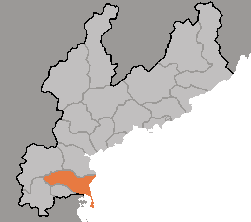 Map of Kumya, Hamgyong-namdo, DPRK, 2006